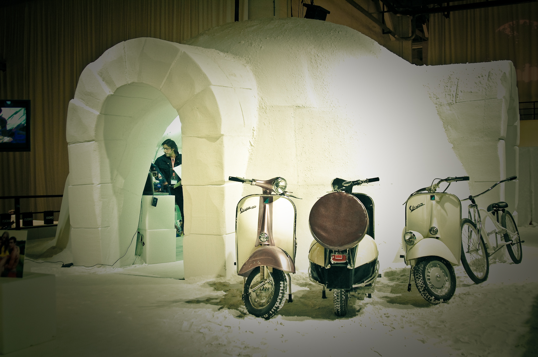 By Basi (Armand Basi) - The Brandery Winter Edition 2010